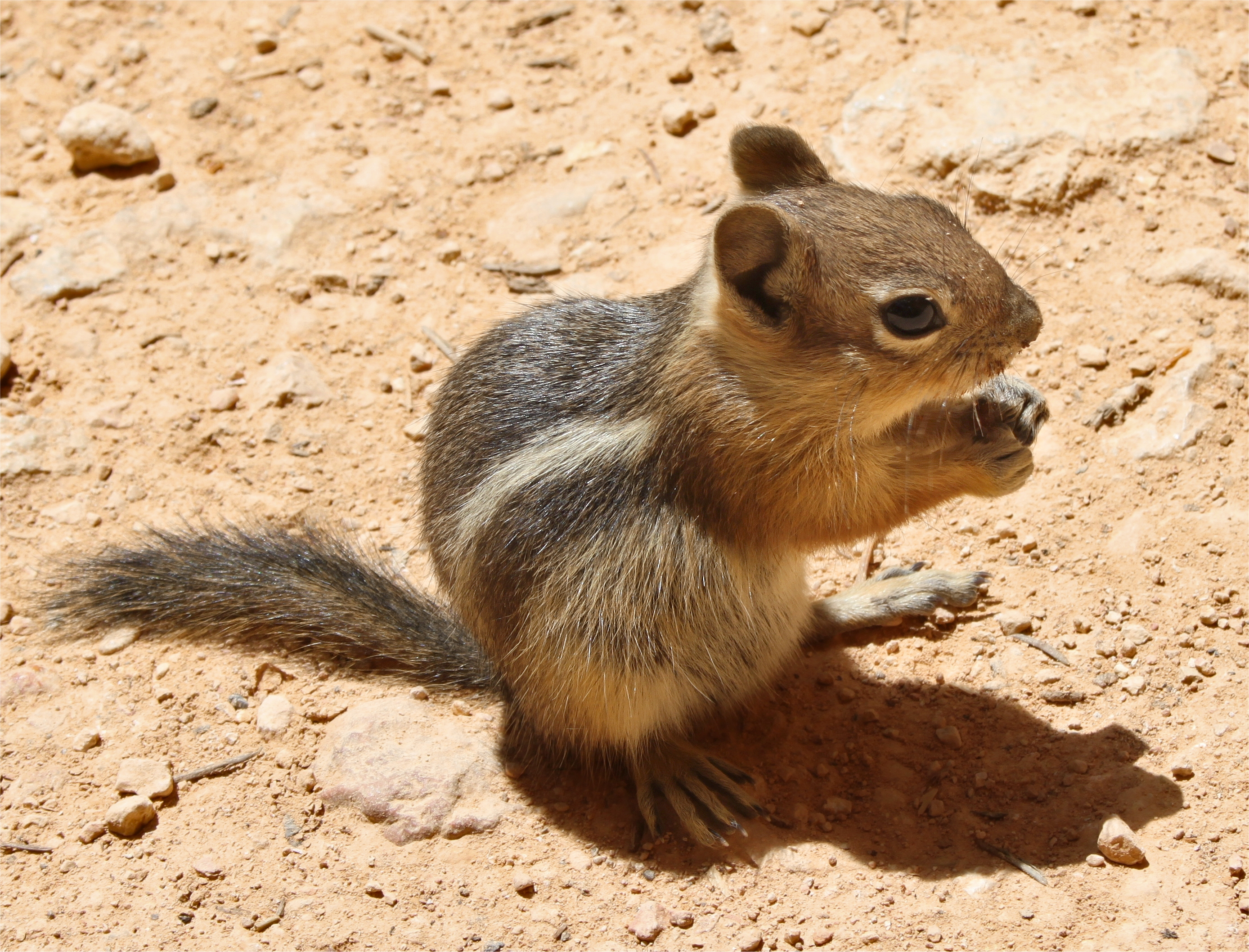 A Golden-mantled Ground Squirrel (Callospermophilus lateralis) photographed during a trip through the Bryce Canyon in Utah, U.S.A.; Summer 2011